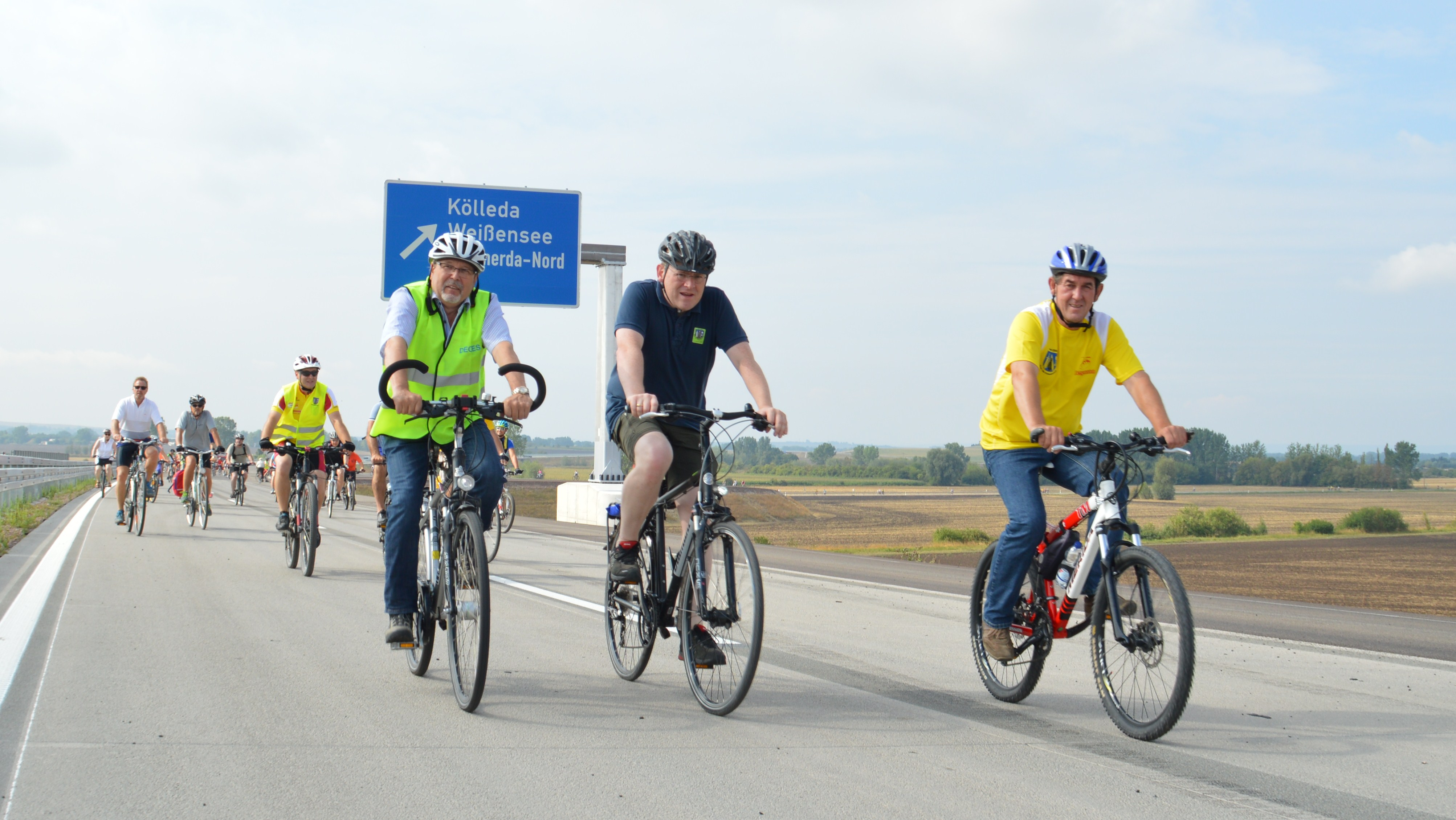 Christian Carius, speaker of the Thuringian state parliament (center) and Harald Henning, district administrator of Sömmerda district (right), during the 2015 Tour de Frömmschdt Original caption: "Thüringens Landtagspräsident Christian Carius (Mitte) und der Landrat des Landkreises Sömmerda, Harald Henning (gelbes Shirt) unterwegs auf der A 71. Die mittlerweile 11. Tour de Frömmschdt führte auch 2015 von Sömmerda nach Frömmstedt. Ein besonderes Highlight war ein Abstecher auf die kurz vor der Fertigstellung befindliche Autobahn A 71 bei Leubingen. Insgesamt nahmen an der Tour über 2.200 Radfahrer teil."